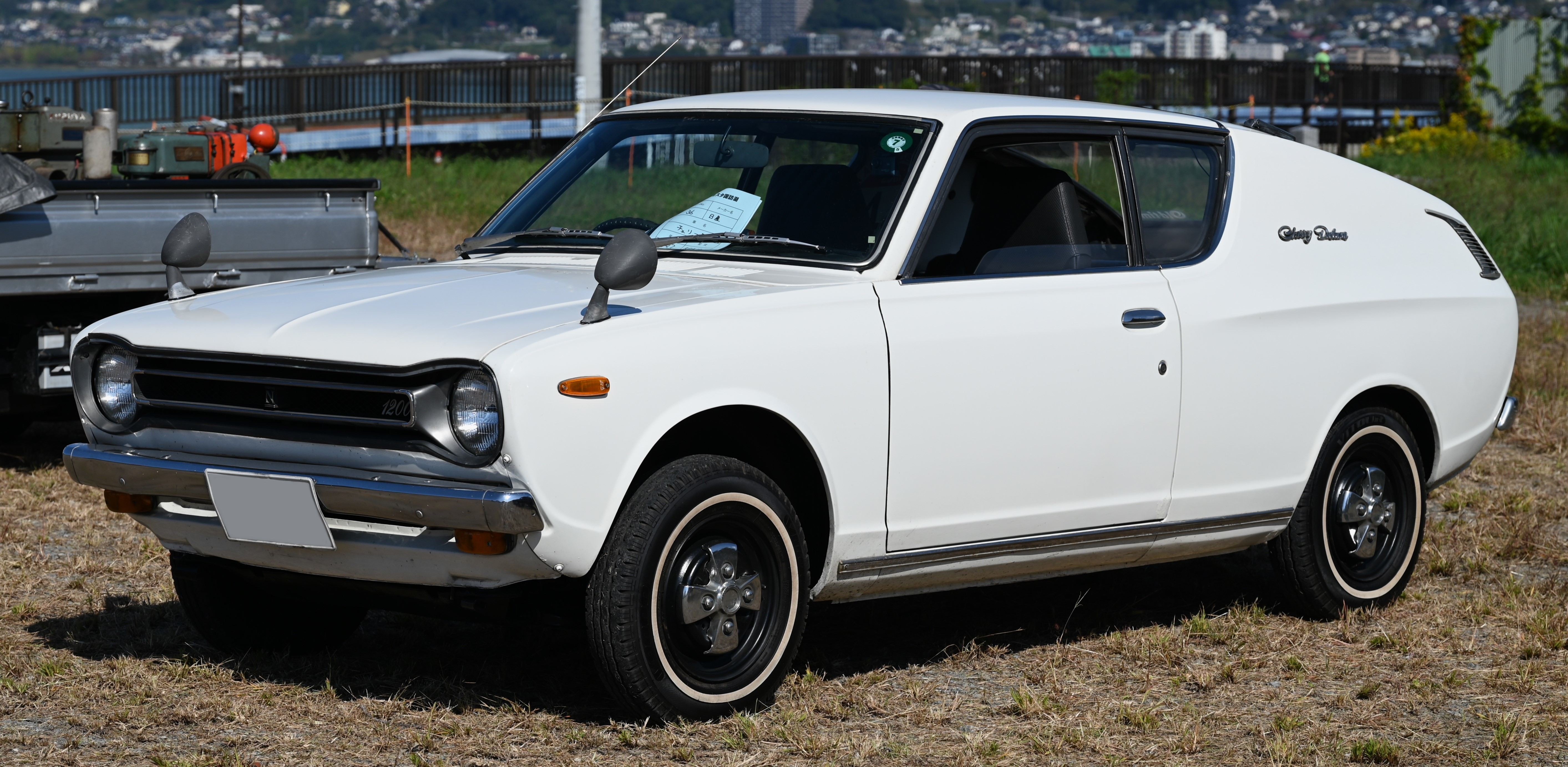 Nissan Cherry